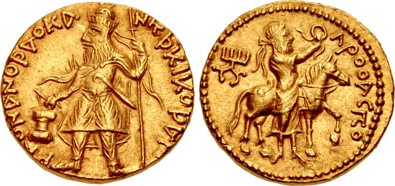 INDIA, Kushan Empire. Kanishka I. Circa AD 127-151. AV Dinar (20mm, 7.99 g, 12h). Main mint in Baktria (Balkh?). Late phase. ÞAONANOÞAO KA NhÞKI KOÞANO, Kanishka standing left, holding goad and scepter, sacrificing over altar to left; flame at shoulder / ΛPOOACΠO to right, Lrooaspo, diademed and bearded, standing right, holding diadem in raised right hand; behind, caparisoned horse standing right with left foreleg raised; tamgha to left. MK 57 (unlisted dies); ANS Kushan –; Donum Burns 127 (same dies); cf. Zeno 19791. EF, minor traces of deposits, light scratch on reverse. Very rare. Extremely rare die pair.